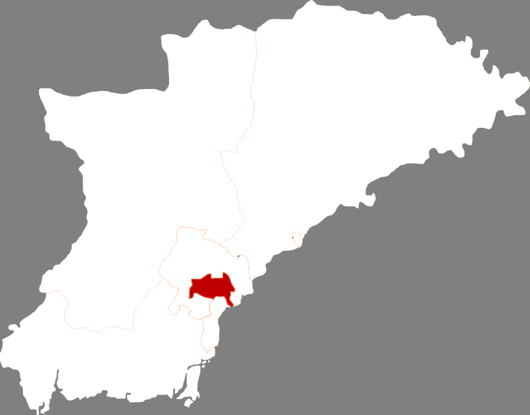 Location of Yuanbao district in Dandong City, China